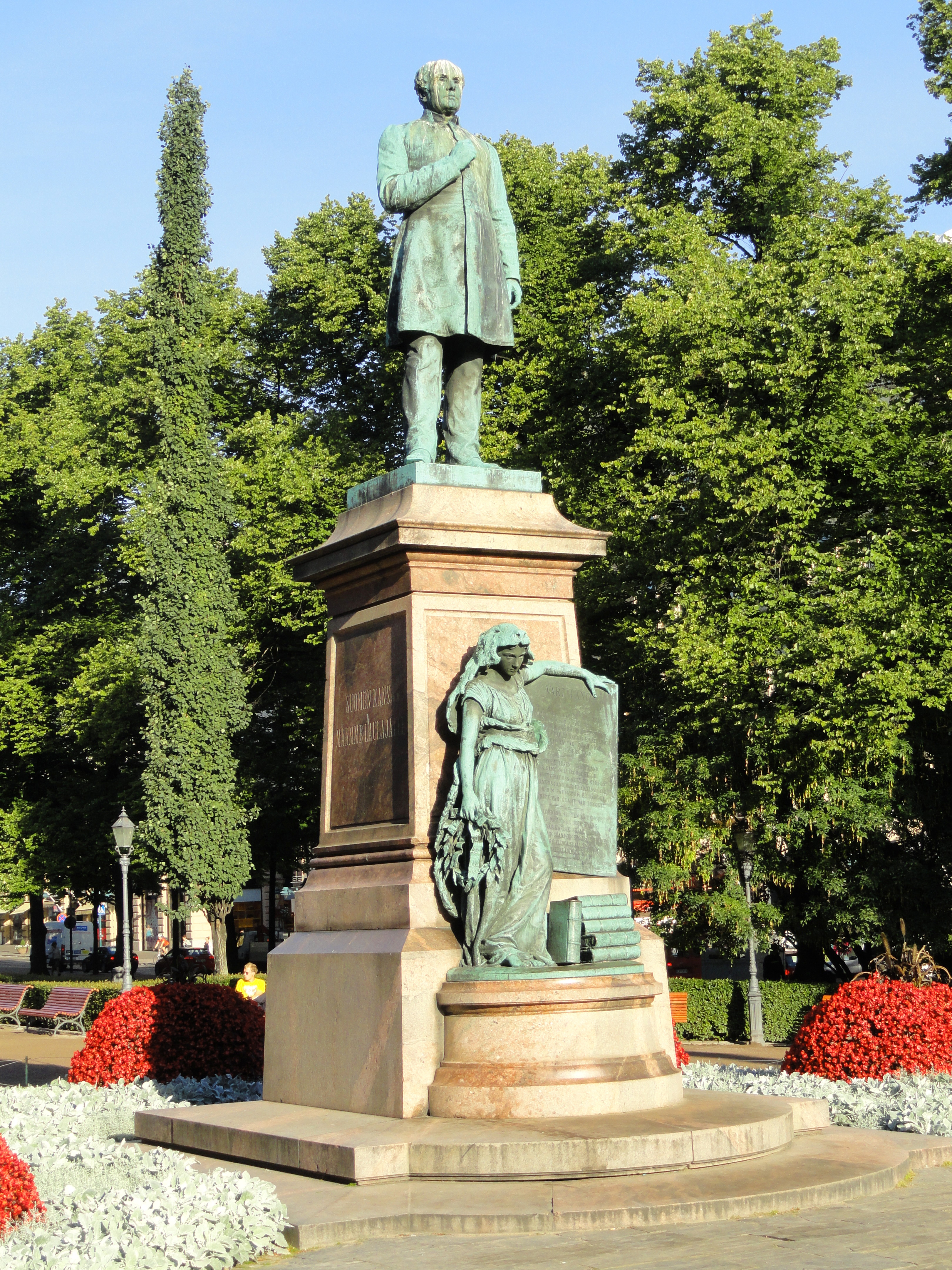 Statue of Johan Ludvig Runeberg, Esplanadi, Helsinki, Finland. Sculptor: Walter Runeberg. This artwork is in the public domain because the artist died more than 70 years ago.